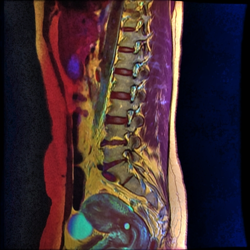 Magnetic resonance imaging of the spine